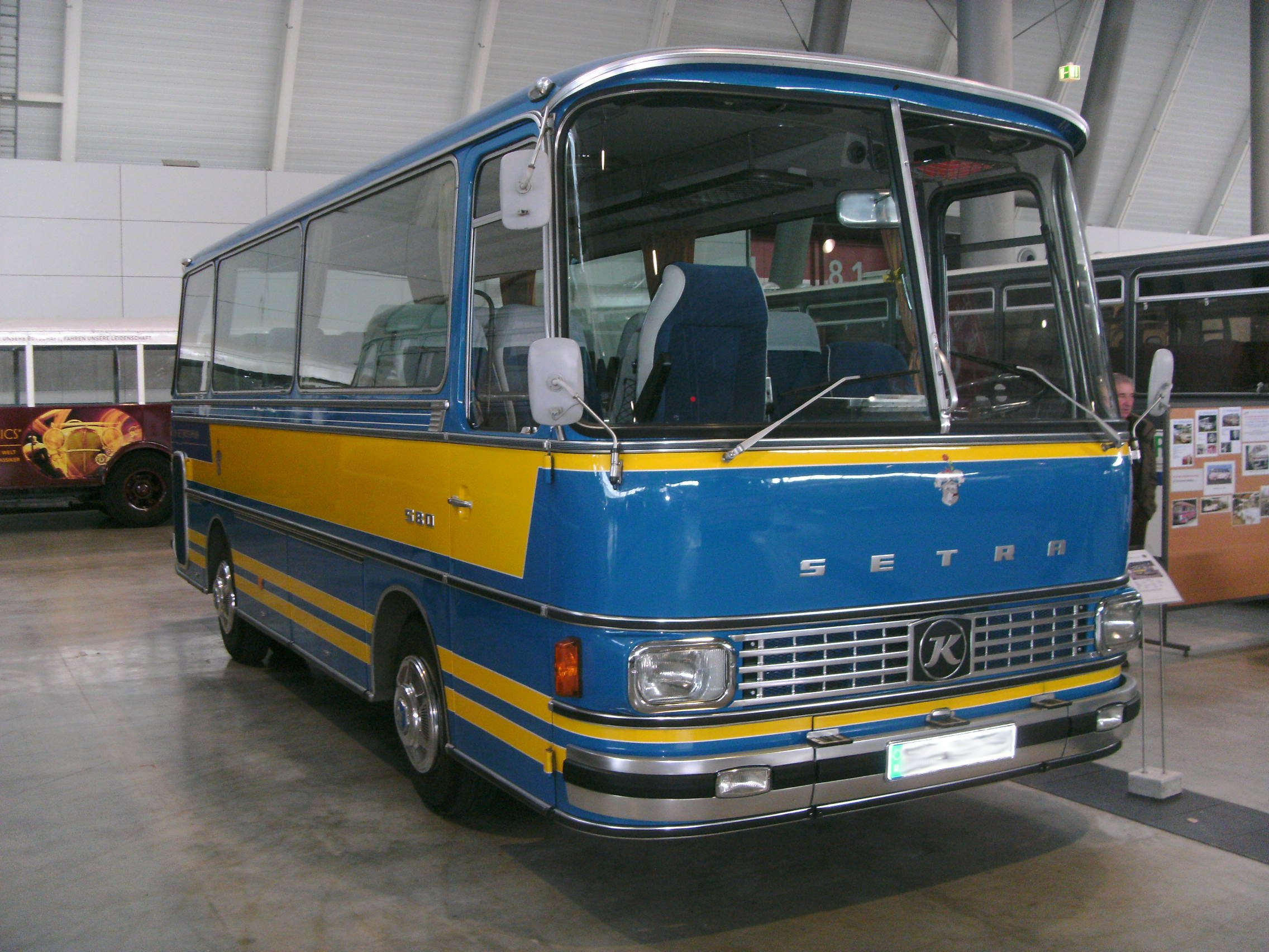 Setra_S80 at Retro Classics 2012